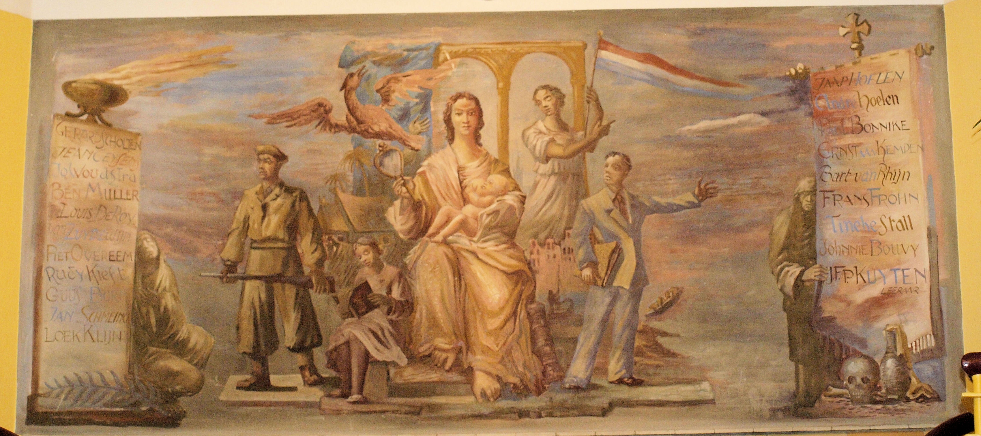 Painting in the Alberdinck Thijmcollege Hilversum